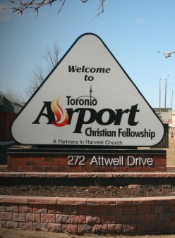 Former Toronto Airport Christian Fellowship logo now Catch the Fire World.